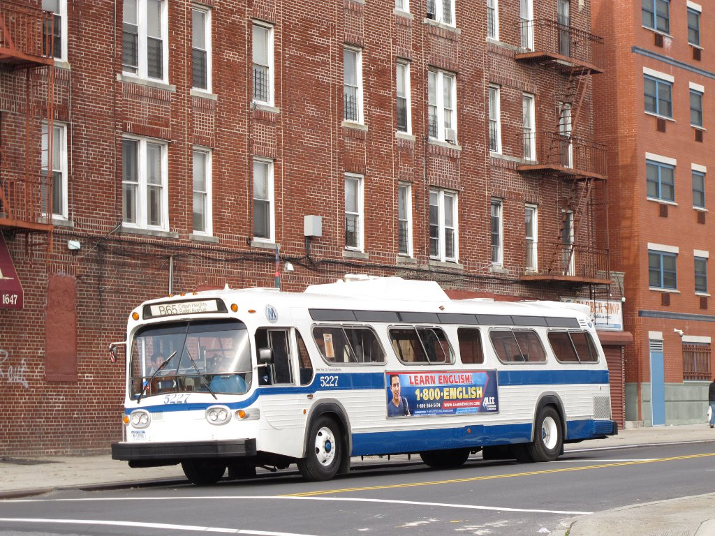 NYC Transit Authority GMC T6H-5305A #5227, a 1971 model originally delivered as #4401 (serial #0638 in the T6H-5305A line), rebuilt in 1985 and retired from regular service in 1995 but preserved by the Metropolitan Transportation Authority (New York)'s NYC Transit Authority subsidiary as a museum bus, lays over at the B65 eastern terminus in Ocean Hill, Brooklyn, NY in special service, before proceeding to the East New York Depot for a garage transfer. The advertisement on the bus was placed on it during the 2008 holiday season.